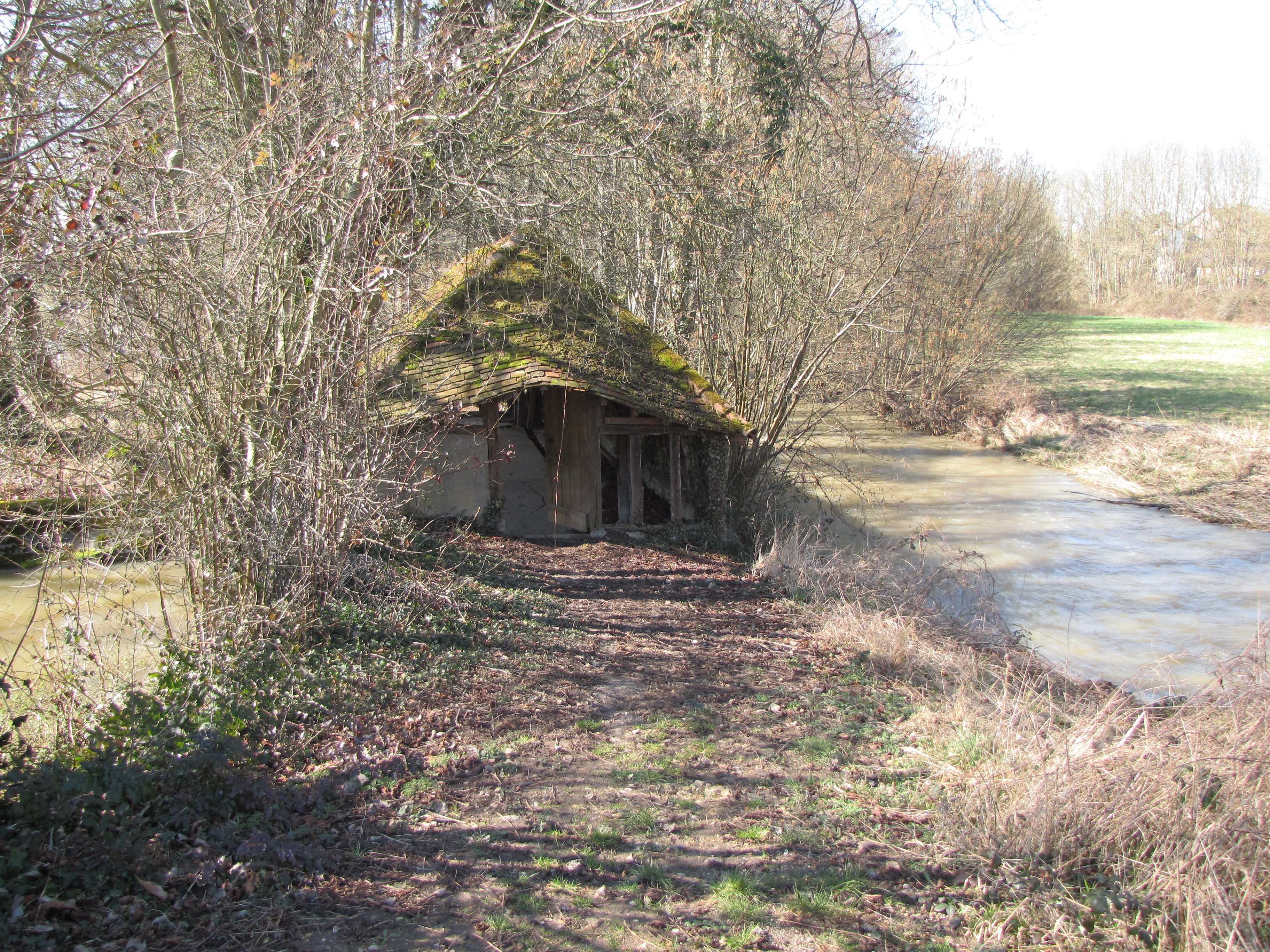 St-Martin-s-Ouanne, Yonne, France. Old village wash house. The picture shows the minor arm of the river Ouanne on the left that feeds the wash house basin, and the main arm of the river down 3 ft below on the right.